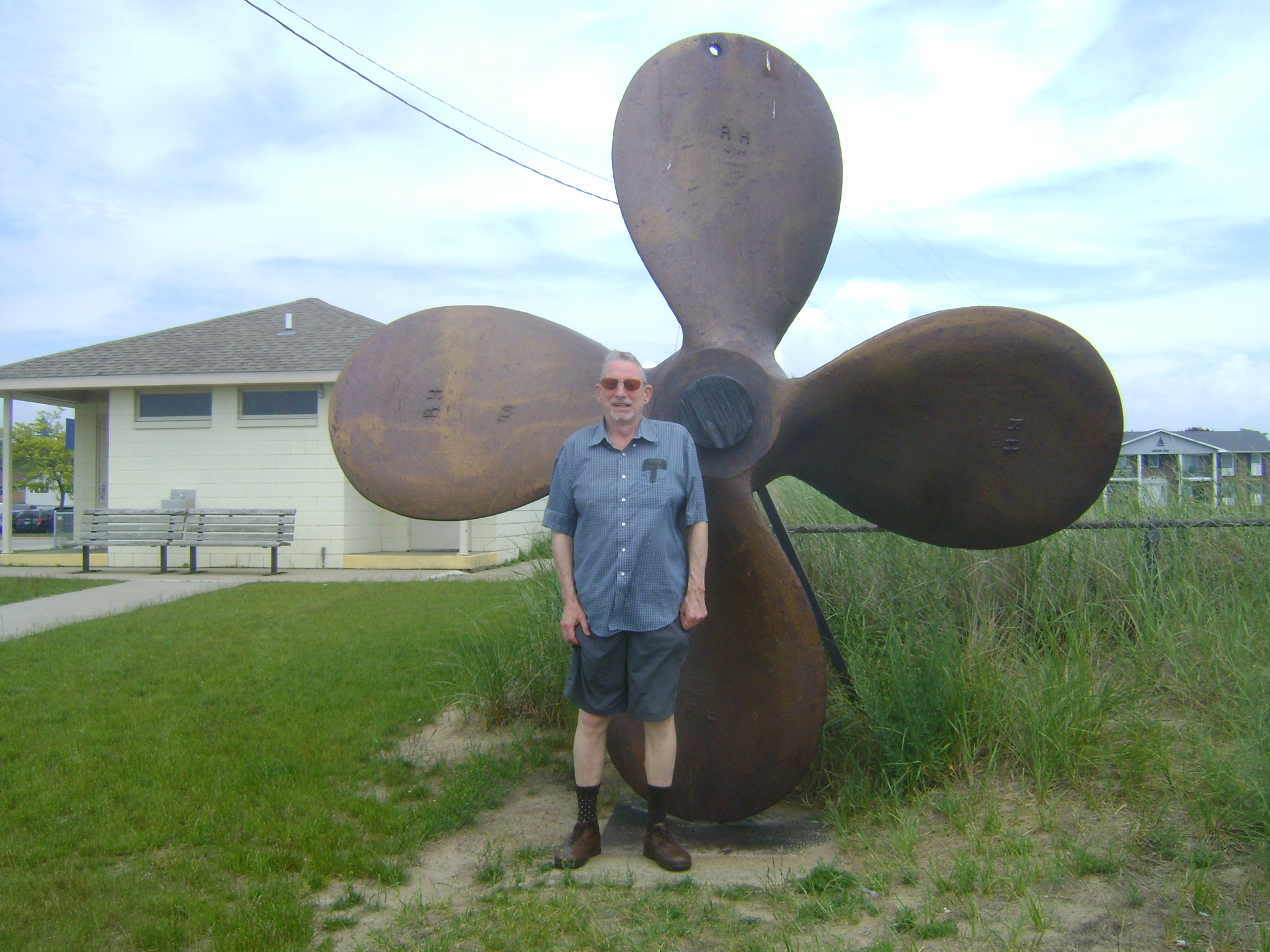 SS Pere Marquette propeller with a 6 foot man